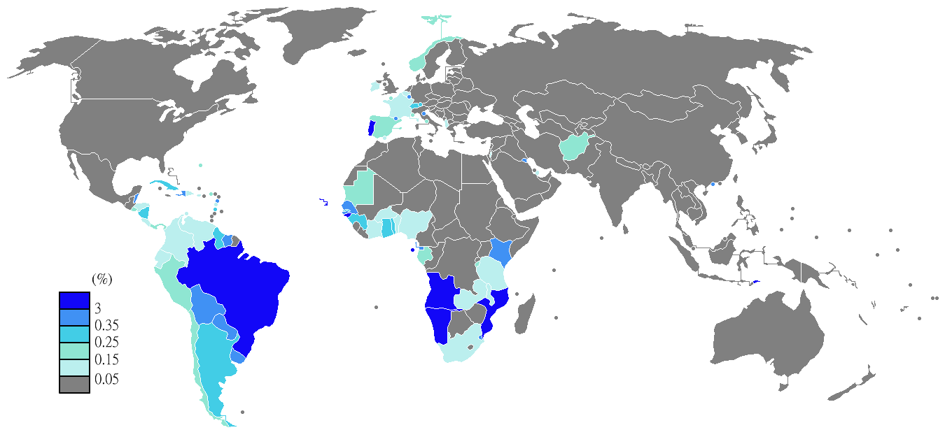 Portuguese Wikipedia Page views ratio by country 201101-201112.png